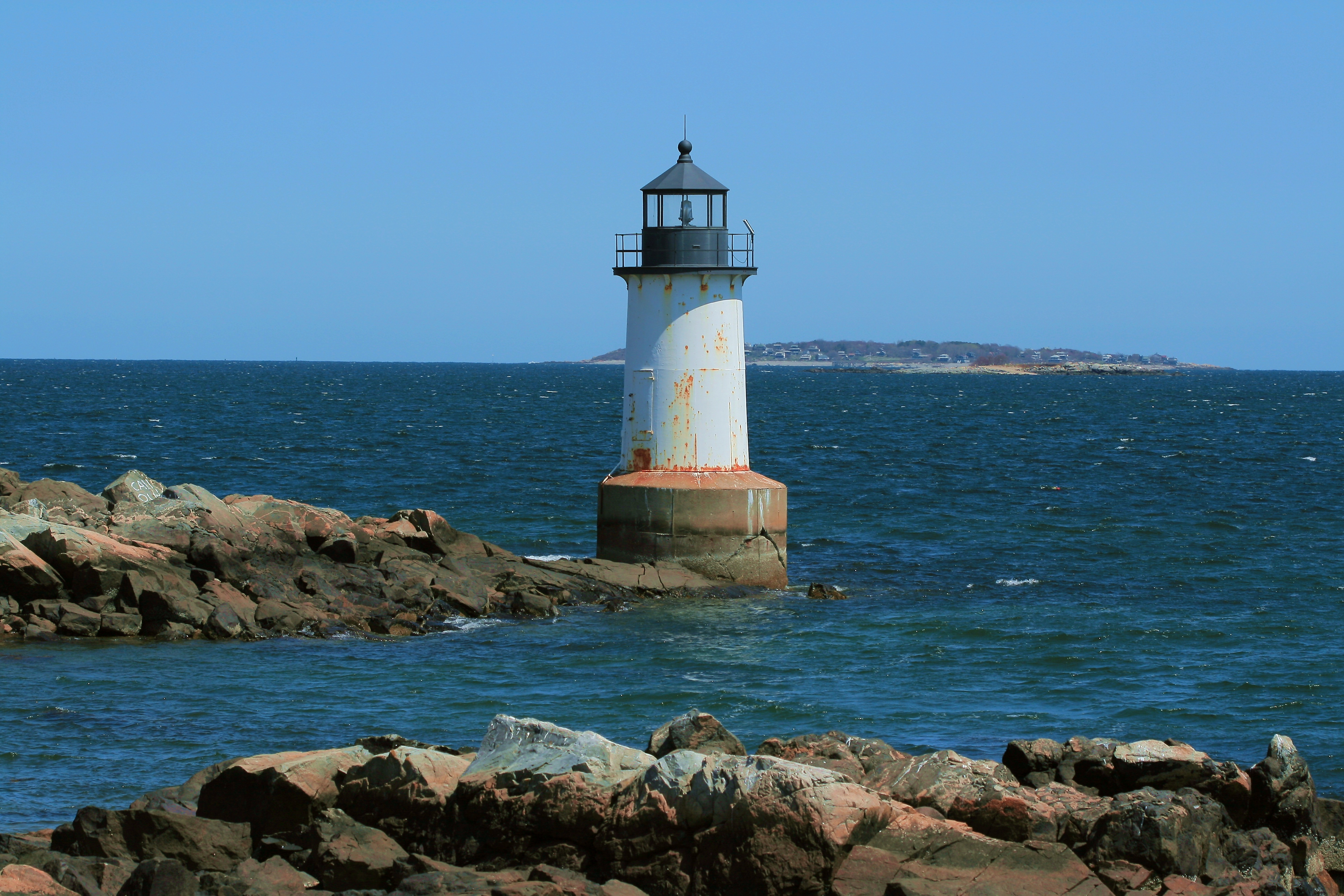 Ocean Lighthouse Salem Massachusetts, also known as the Fort Pickering Light on Winter Island.